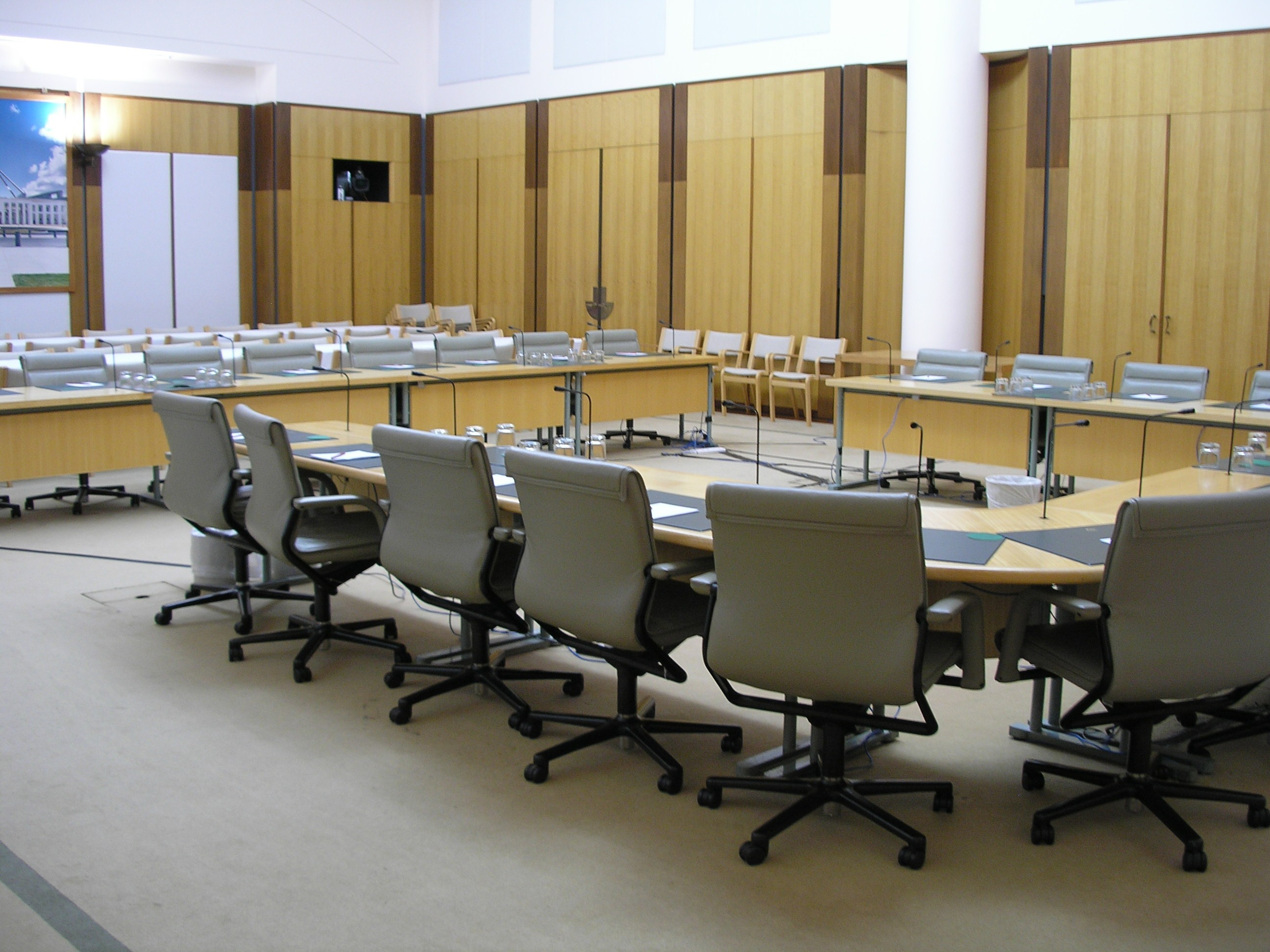 Category:Images of Canberra House of Representatives committee room in Parliament House, Canberra. Taken by hamiltonstone, 12 September 2007. For use in Australian House of Representatives committees